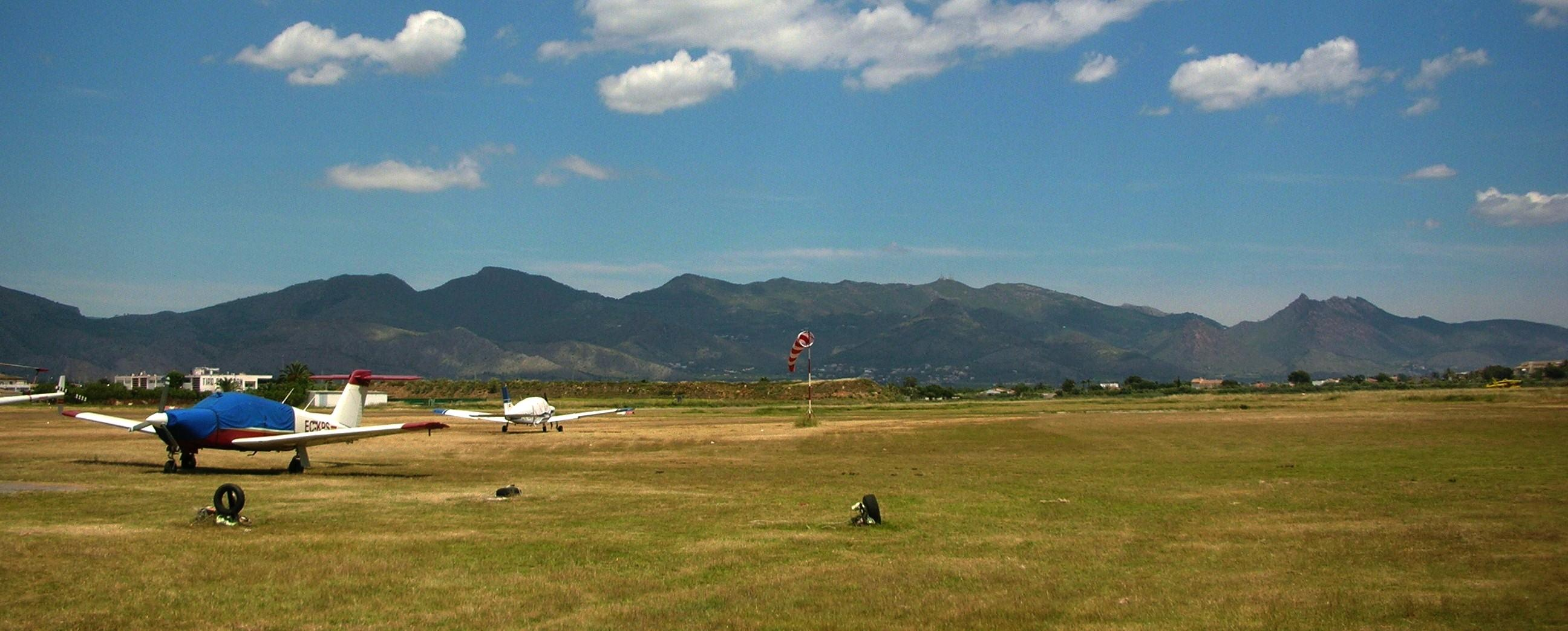 Desert de les Palmes mountain range over Castelló de la Plana Aero Club